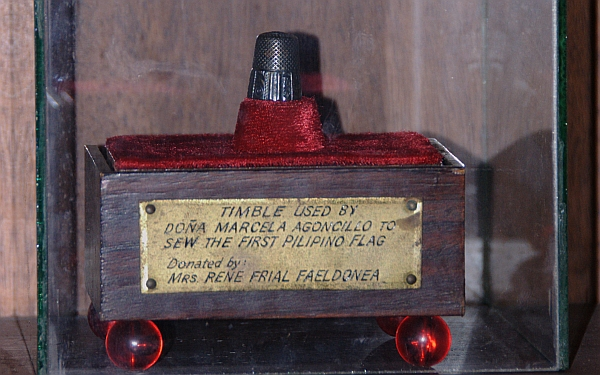 Photograph of thimble used by Marcela Agoncillo when she sewed the first Philippine flag. Thimble presently on display at Malacanang Museum, City of Manila, Philippines. Photo personally taken by uploader on 26 October 2007,3:18 pm (local time), at Malacanang Museum. Image cropped from the original by uploader using GIMP on 30 December 2007. Mrs. Renee Frial Faeldonea, whose name is mentioned on the engraved caption to the thimble, is a daughter of Maura Agoncillo Frial, a niece of Dona Marcela. Maura is one of a 10 known Agoncillo siblings who are nieces and nephews of Don Felipe. Maura Agoncillo married Adolfo Frial of the Frial Clan of Dumalag, Capiz and Dona Marcela gave one of the thimbles she used during the making of the first Philippine Flag to Maura. To this day, there is a thriving branch of the Agoncillo family surnamed Frial and other paternal surnames based in Capiz and migrated to the United States, and other parts of the World. Mrs. Renee Frial Faeldonea gave the thimble as a token gift to Imelda Marcos during the Marcos years. As Don Felipe Agoncillo and Dona Marcela's daughters all died without heirs, there is no direct line descended from the prominent couple.